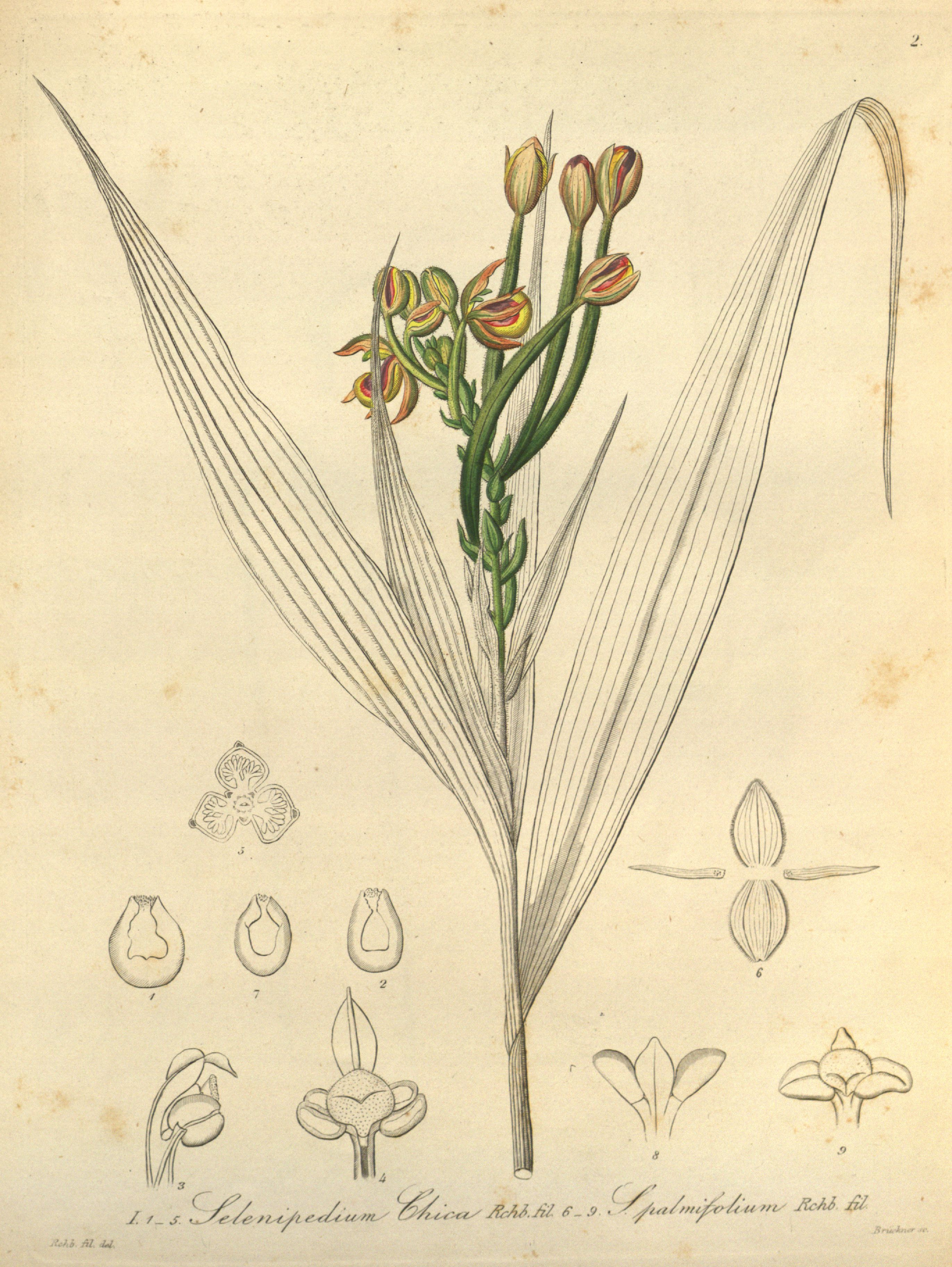 Illustration of Selenipedium chica and Selenipedium palmifolium